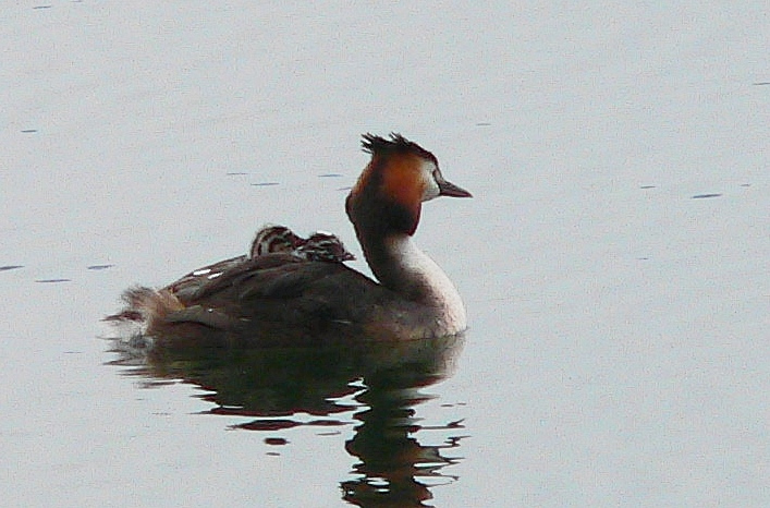 Great crested Grebe with two chicks Picture taken at Lake Constance, early June 2006 Autor: Ulrich Prokop (Scops)